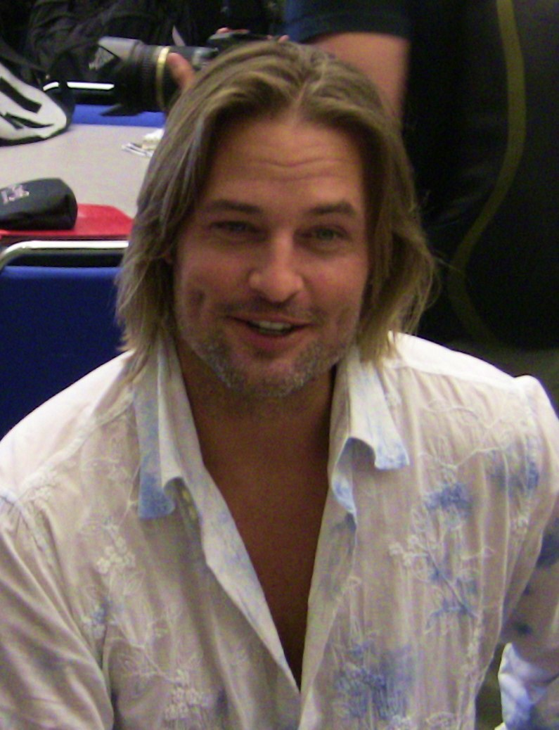 Actor Josh Holloway – Comic-Con 2009 - Lost - San Diego, Calif. - July 25, 2009.